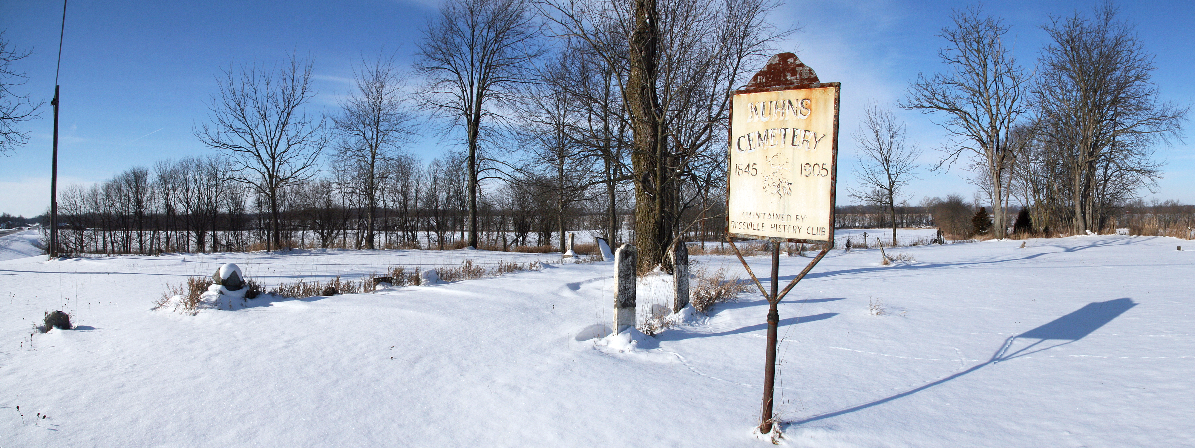 Historic Kuhns Cemetery, just west of Rossville in Clinton County, Indiana. Photo looks northwest from Indiana State Road 26.